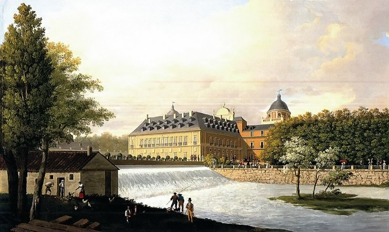 Vista del Rl.Sitio de Aranjuez, de la Cascada grande y Palacio; tomada de la parte d Lebante